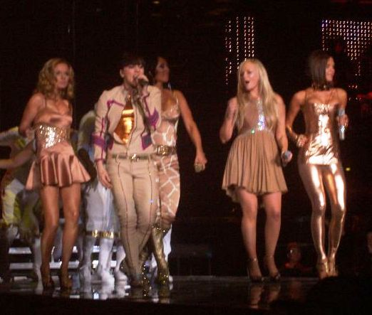 Spice Girls Las Vegas (December 9th) Concert